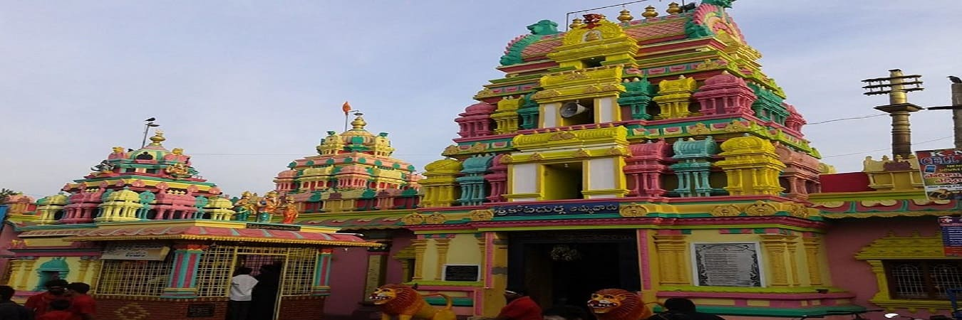 palakonda